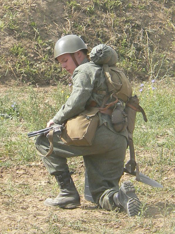 Man wearing a historical battledress of ČSLA (Czechoslovak People's Army) during the 6th Tank Day in Lešany Military Technical Museum